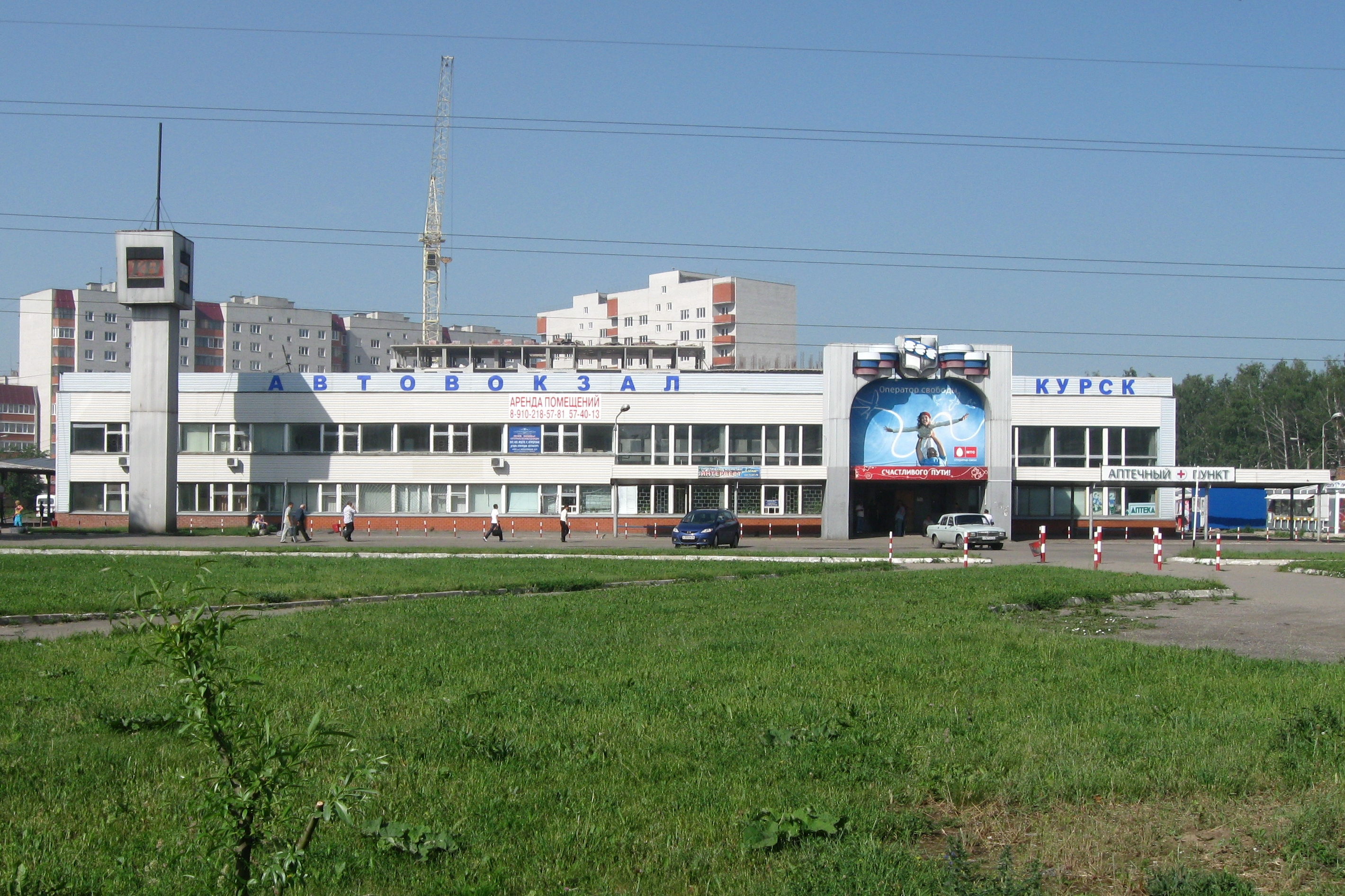 Main Kursk Bus Station